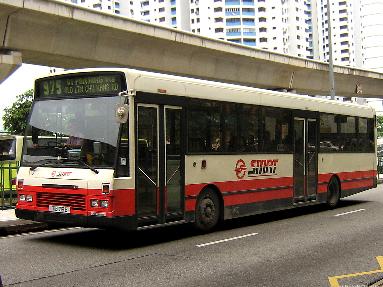 Alexander Setanta (Sentanta?) bodied DAF SB220LT (TIB716B, built 1995) in Singapore, operated by SMRT Buses Ltd.